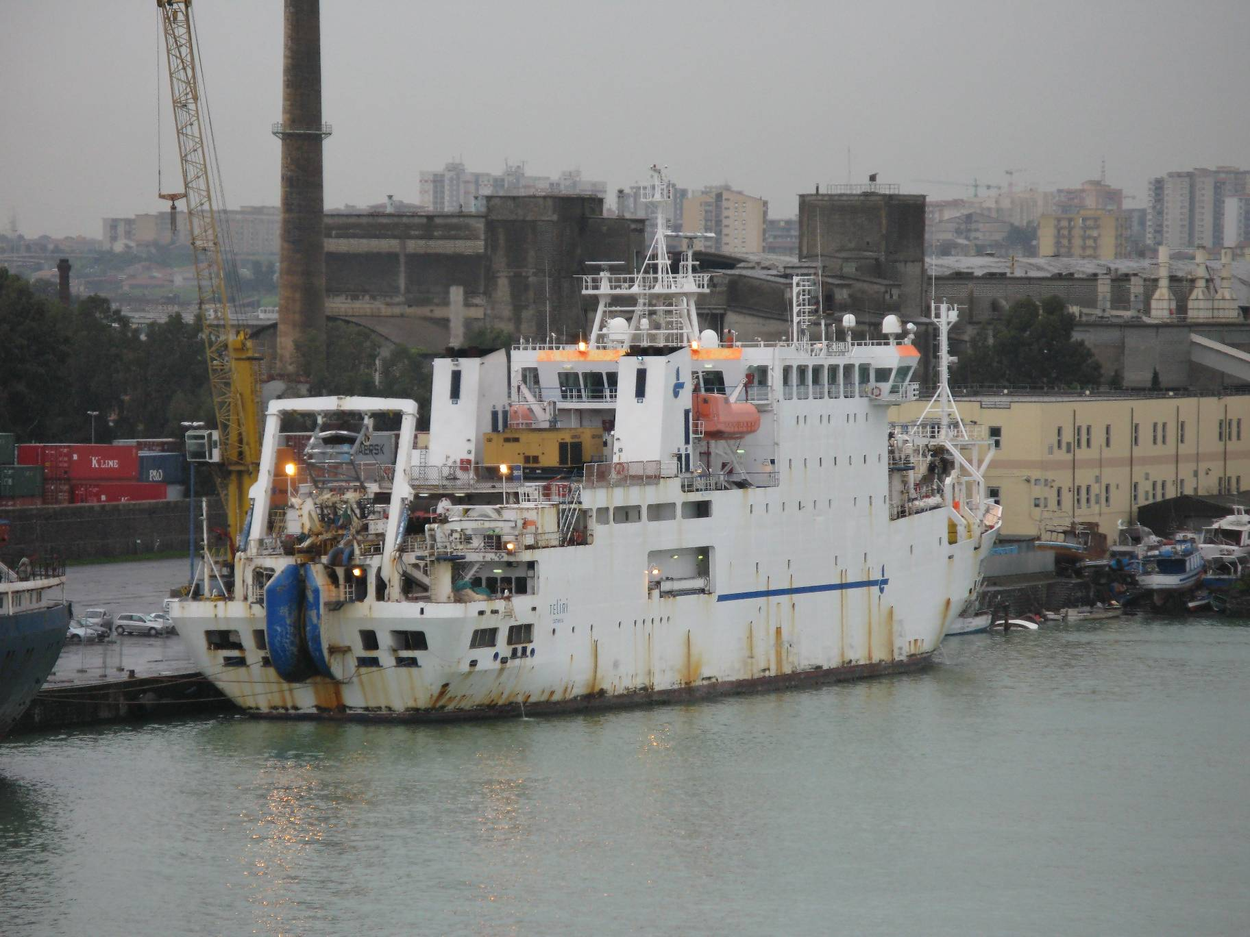 Cable-laying ship Teliri in Catania